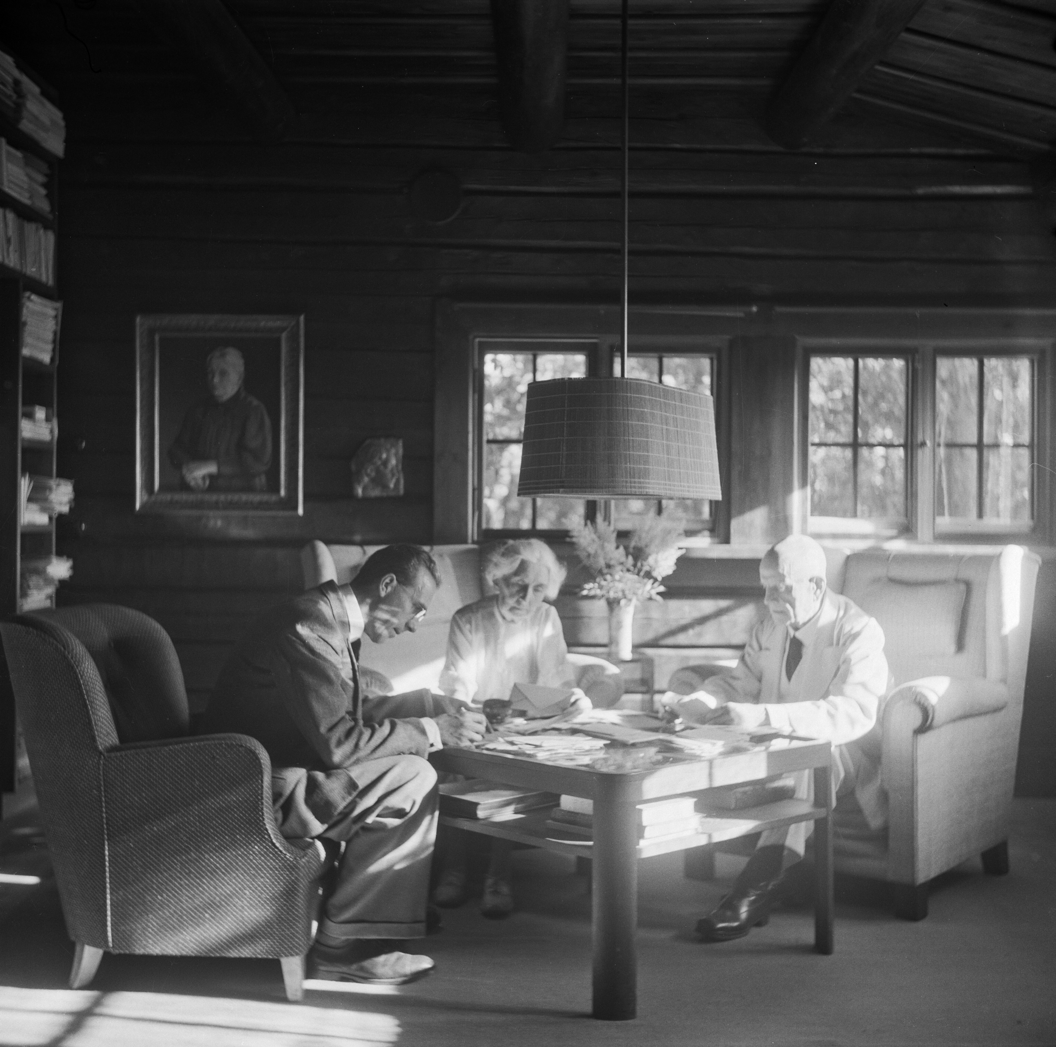 Santeri Levas: Sorting the daily mail. The photographer and Sibelius' private secretary Santeri Levas, Aino_Sibelius|Aino Sibelius and Jean Sibelius in the Ainola library, 1940-1945, Järvenpää. Digitized original negative.